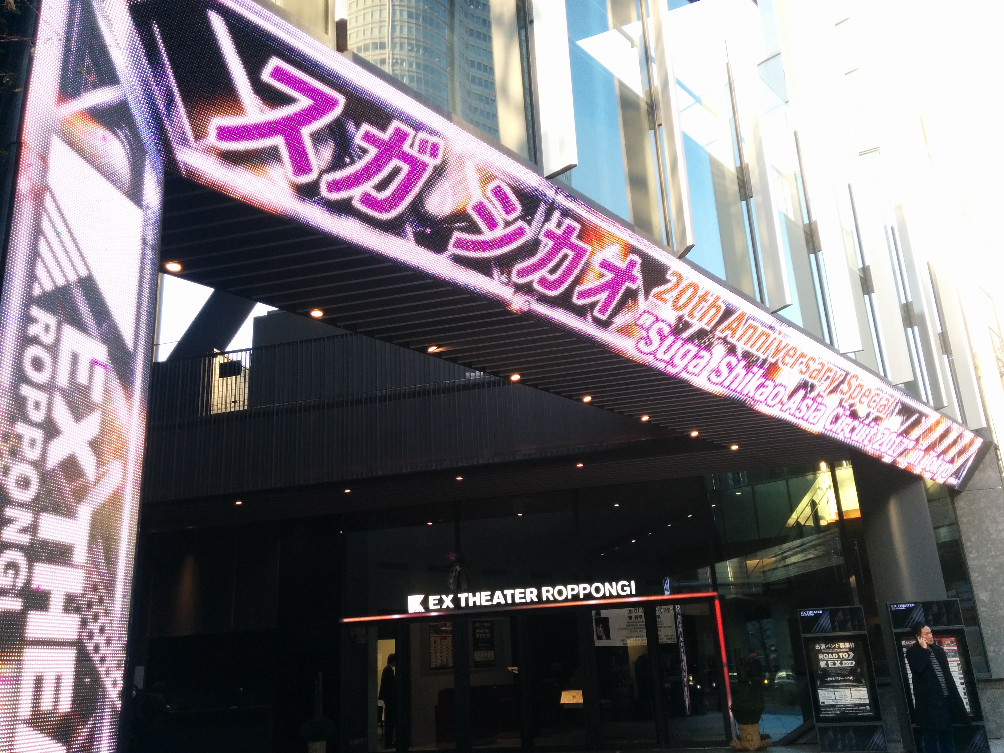 EX Theater